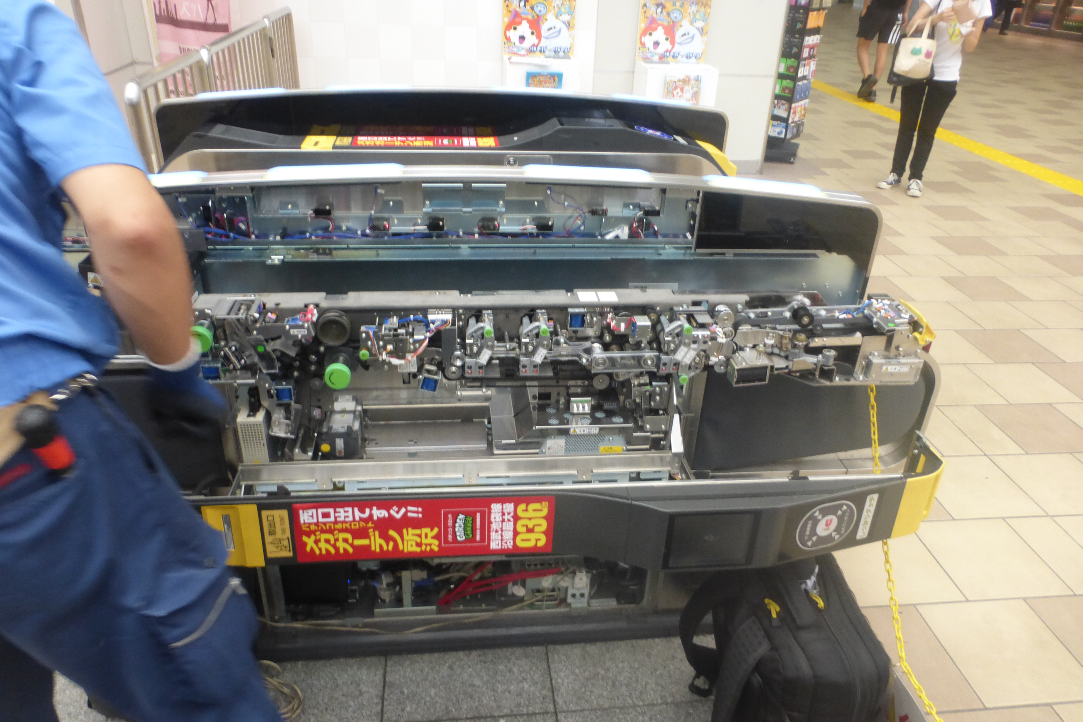 inside a train ticket machine (自動改札機の中)